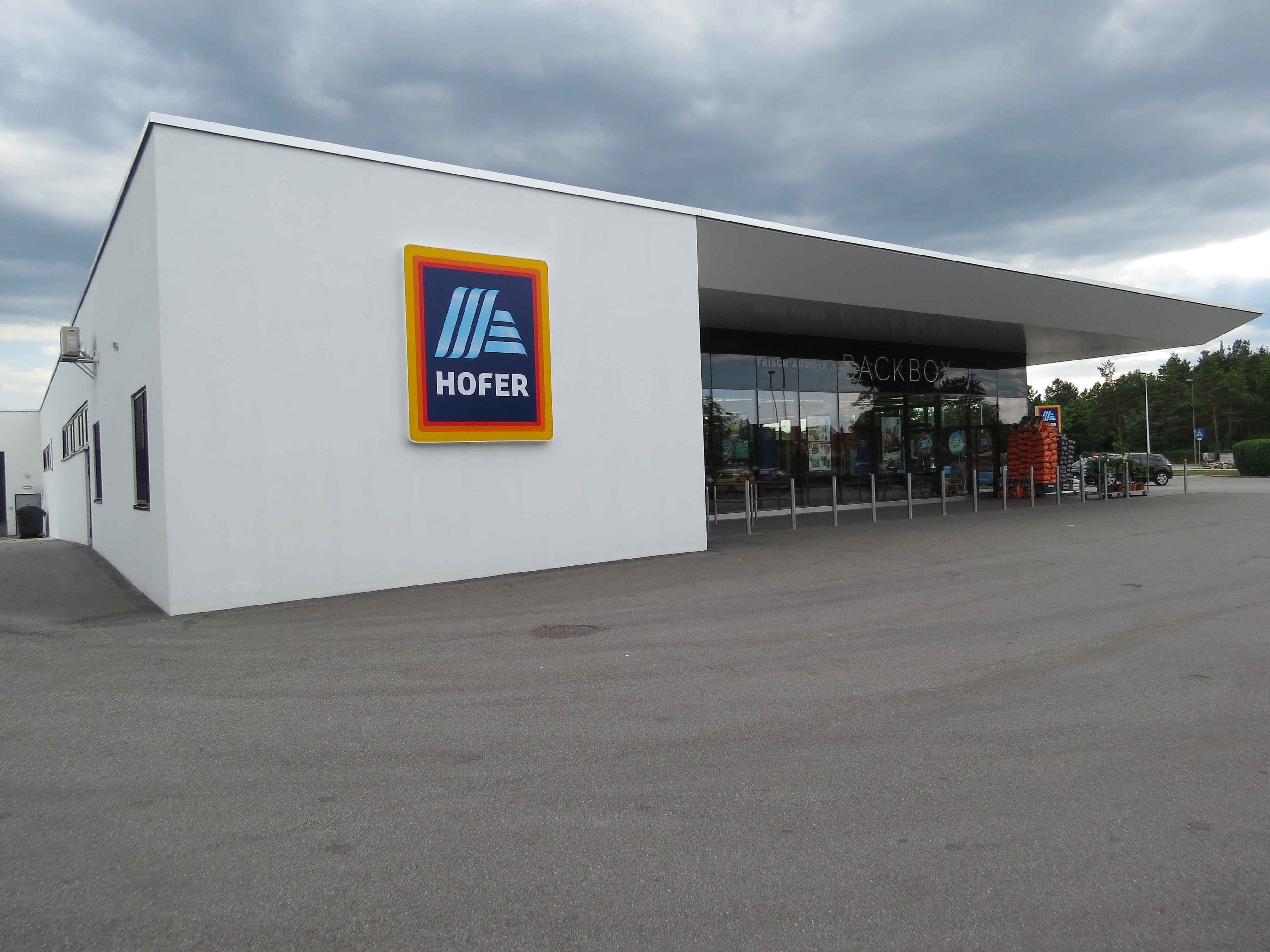 Hofer at Herzogenburg